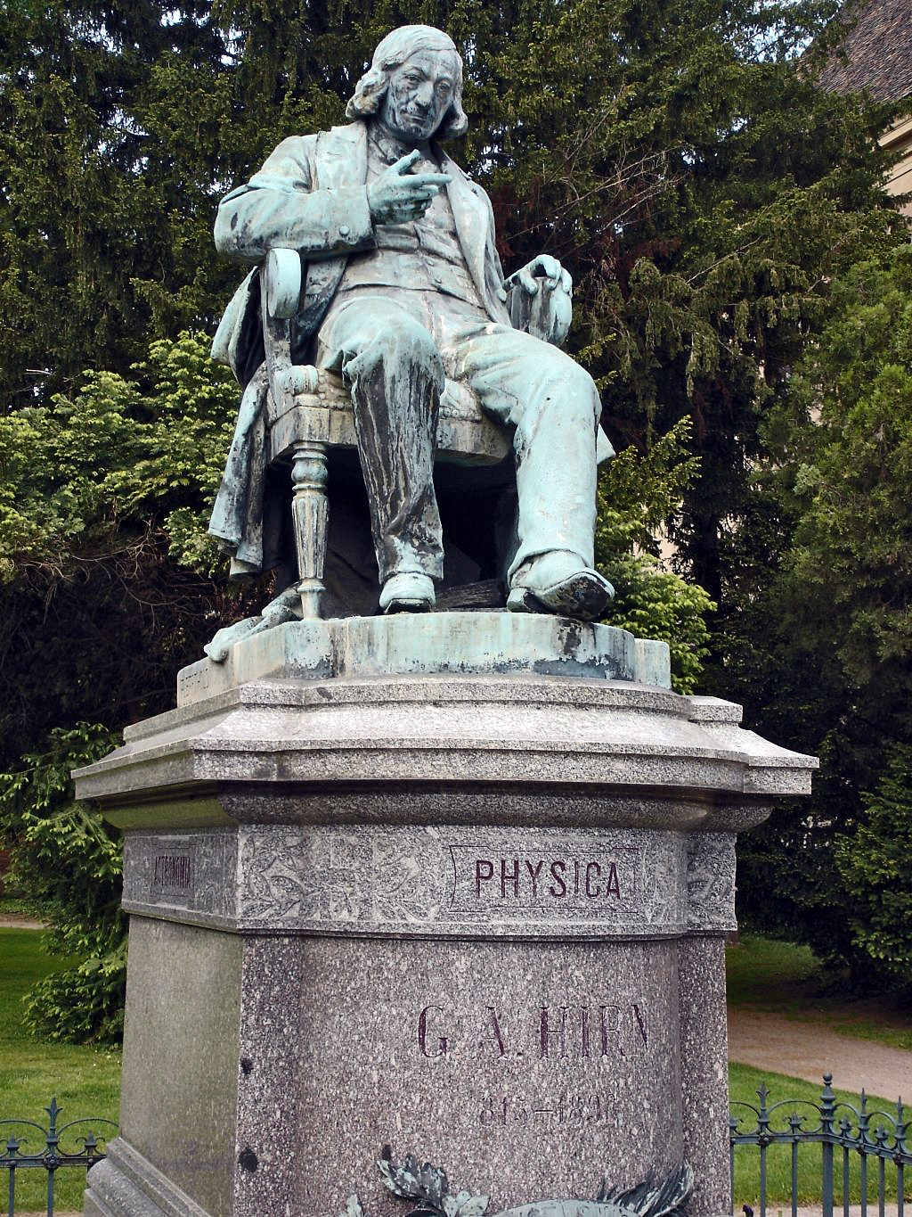 Sculpture of Gustave-Adolphe Hirn in Colmar, France, by Frédéric Auguste Bartholdi.